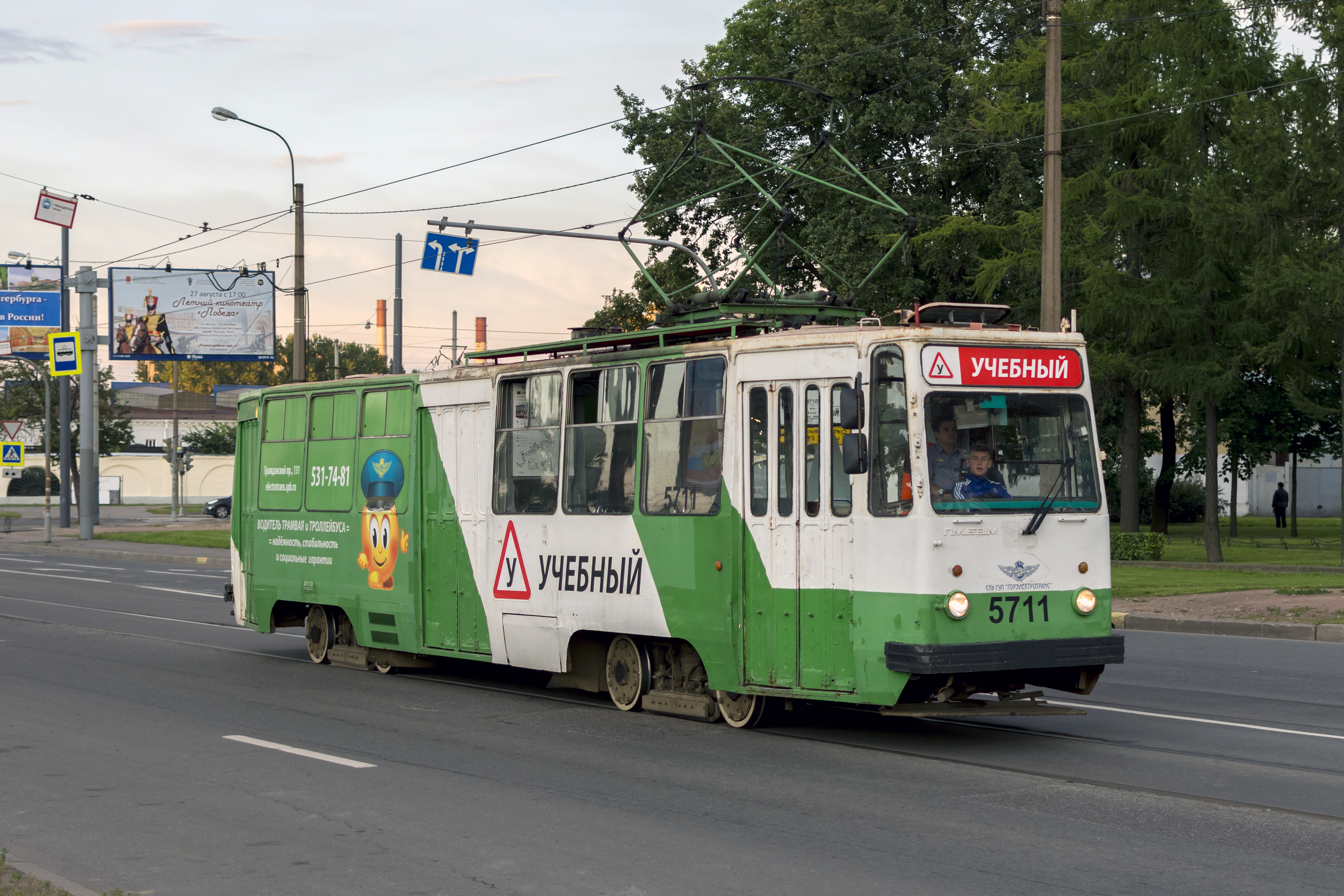 Training Tram LM-68M on Grenaderskaya Street in Saint Petersburg